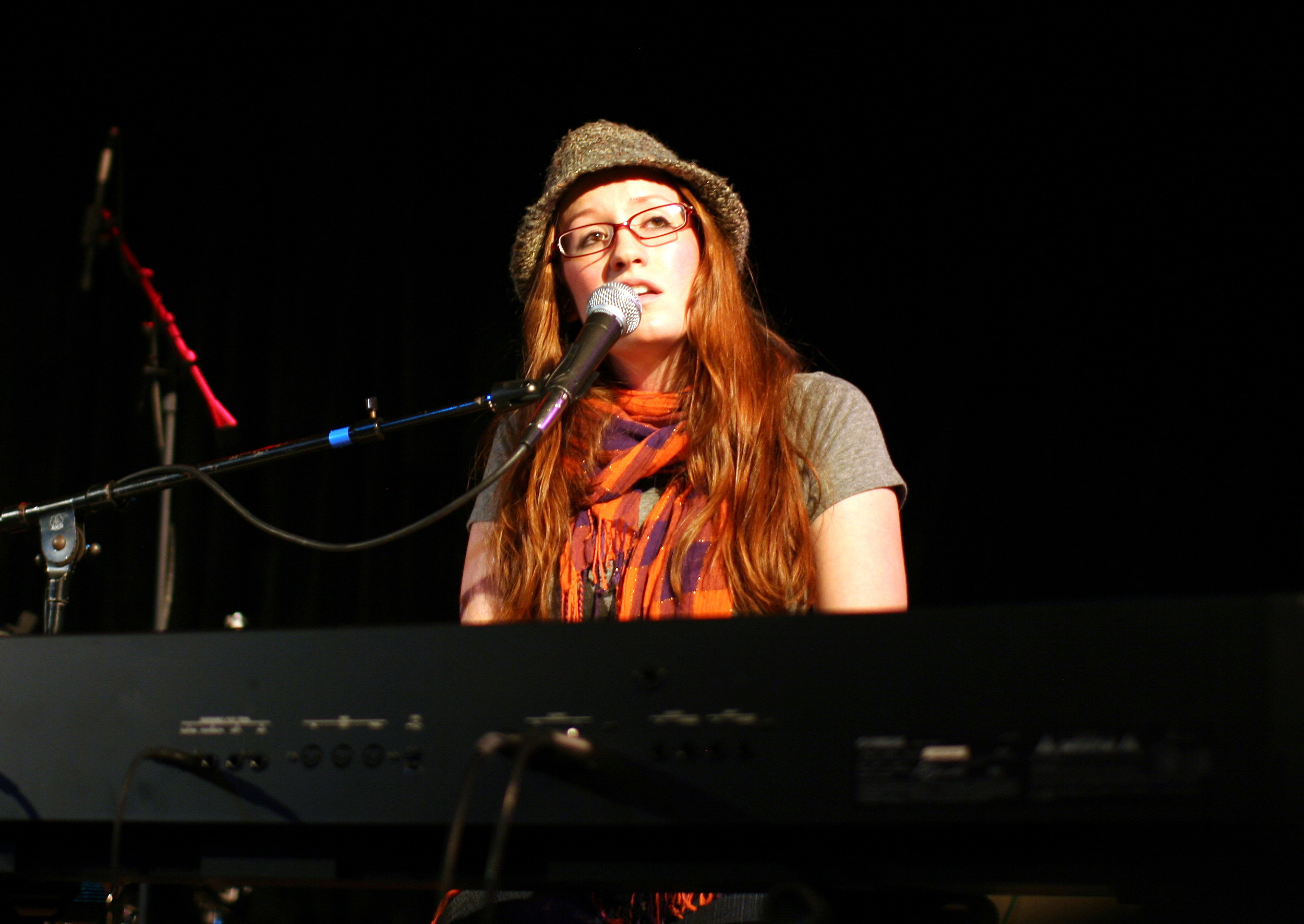 A photo of Ingrid Michaelson taken by the submitter during her Nov 20th 2008 performance at The Ark in Ann Arbor, MI.